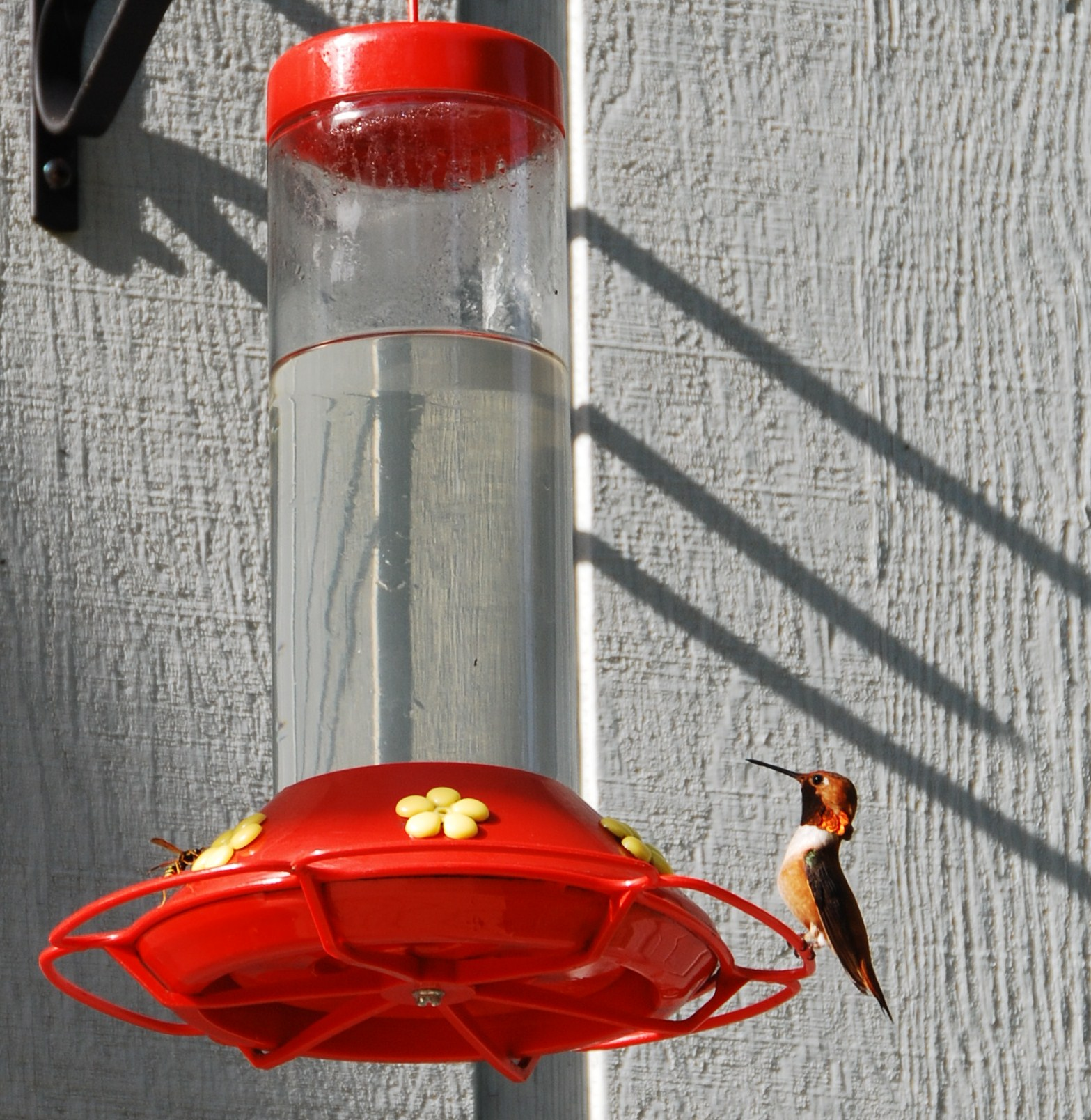 Male rufous hummingbird (Selasphorus rufus), Olympia, Washington.